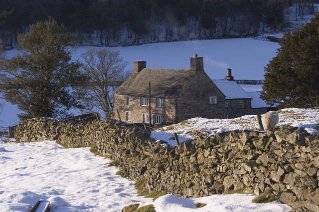 Nether Hall Taken from the path from Water Yeat